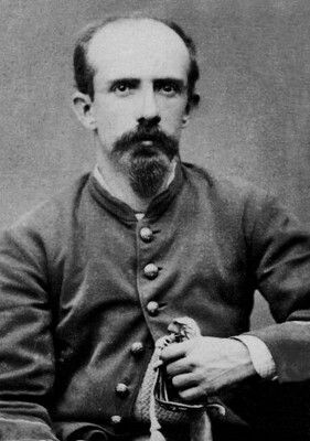 Ignacio Carrera Pinto (February 5, 1848 – July 9, 1882) is a Chilean hero of the War of the Pacific.